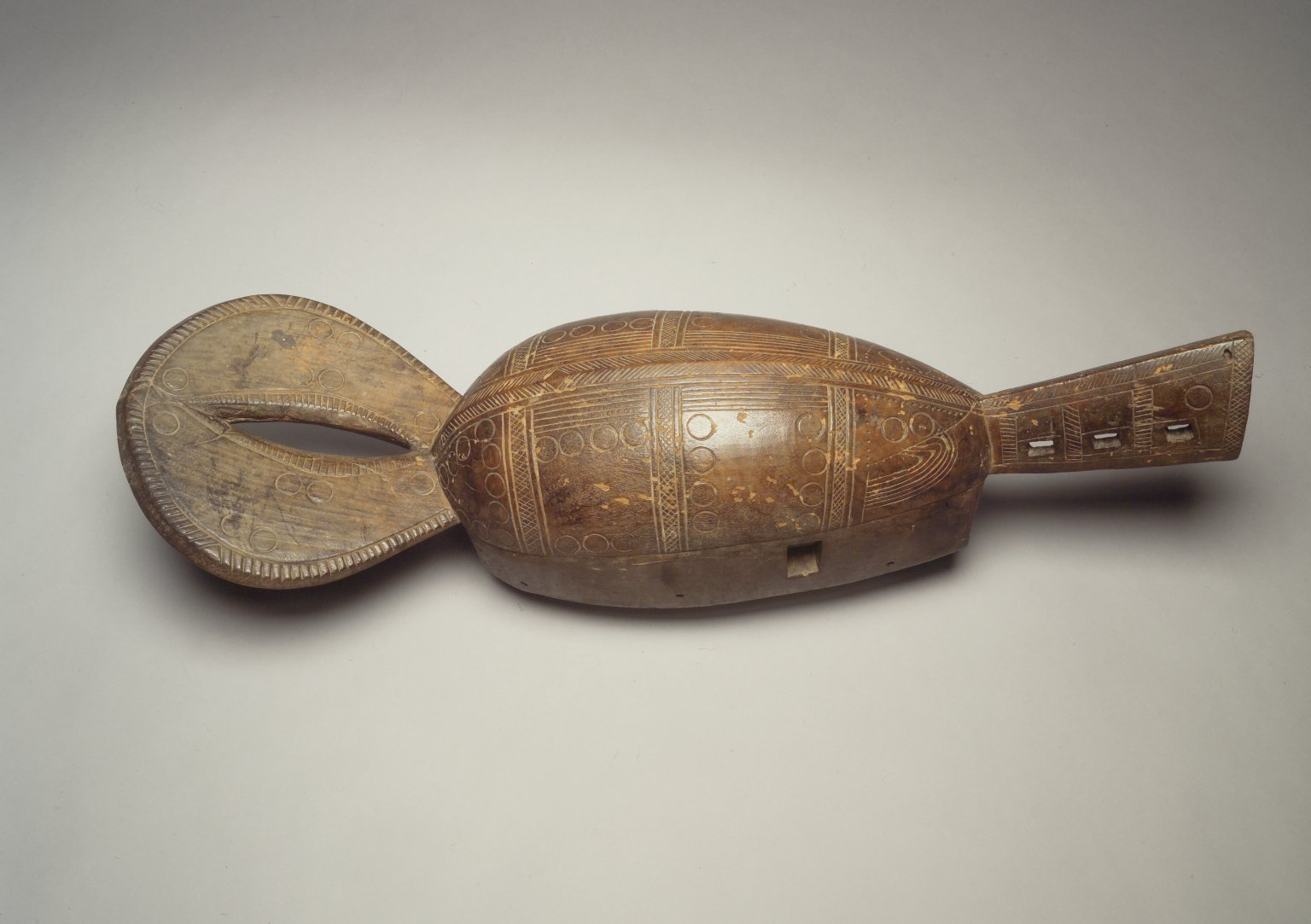 Tonkongba Headdress